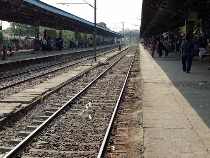 Brace Bridge Railway Station